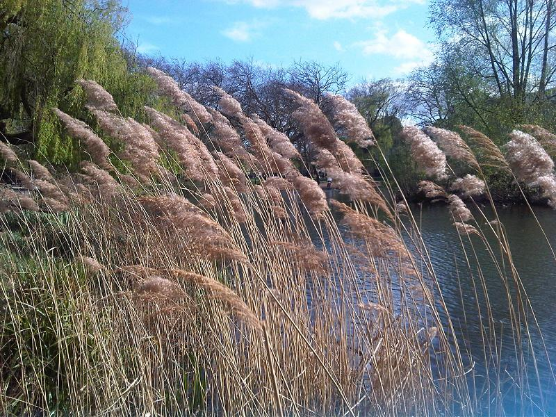 Common reed (Phragmites australis) in London, England.